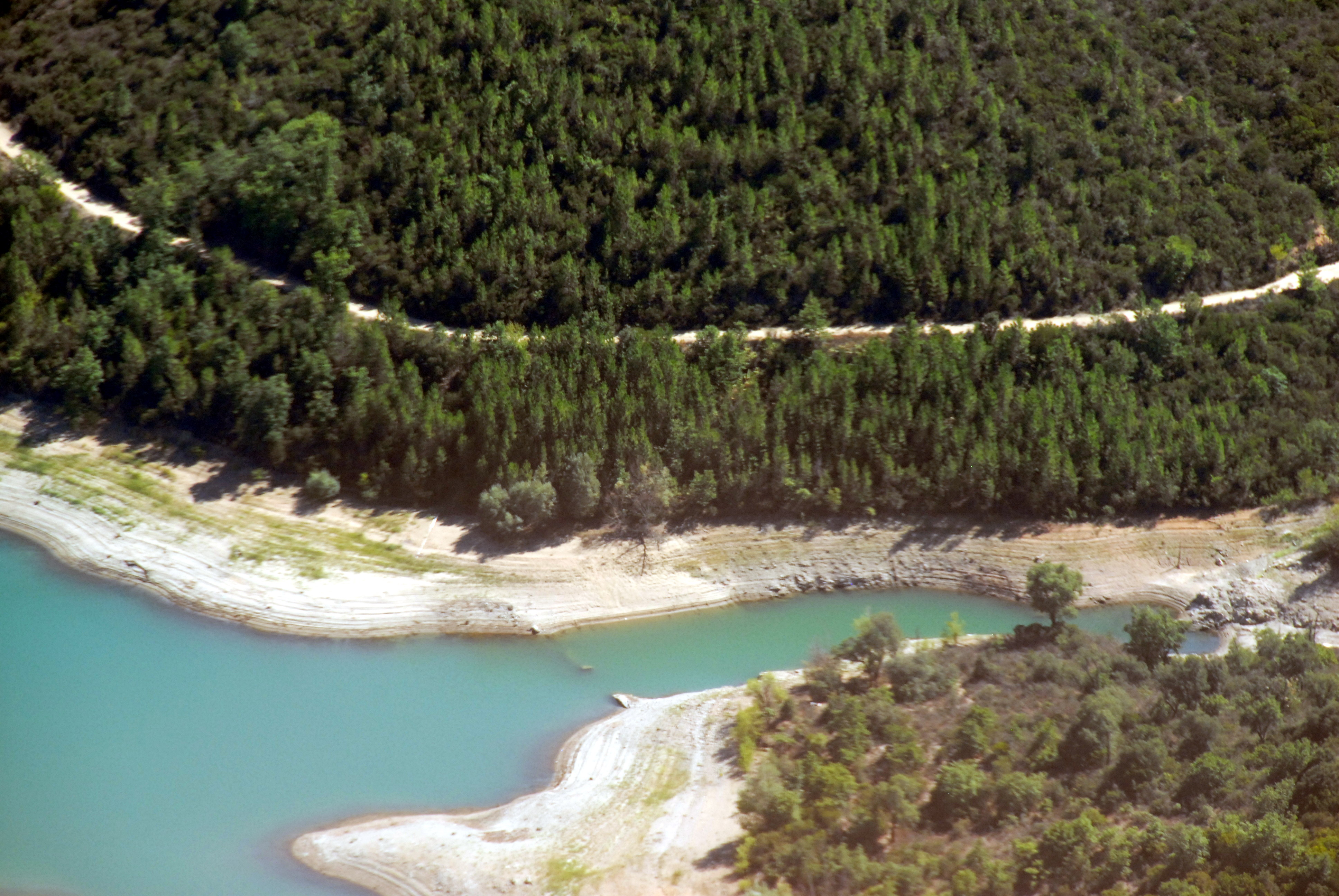 Coulombons river in Fondurane Montauroux.